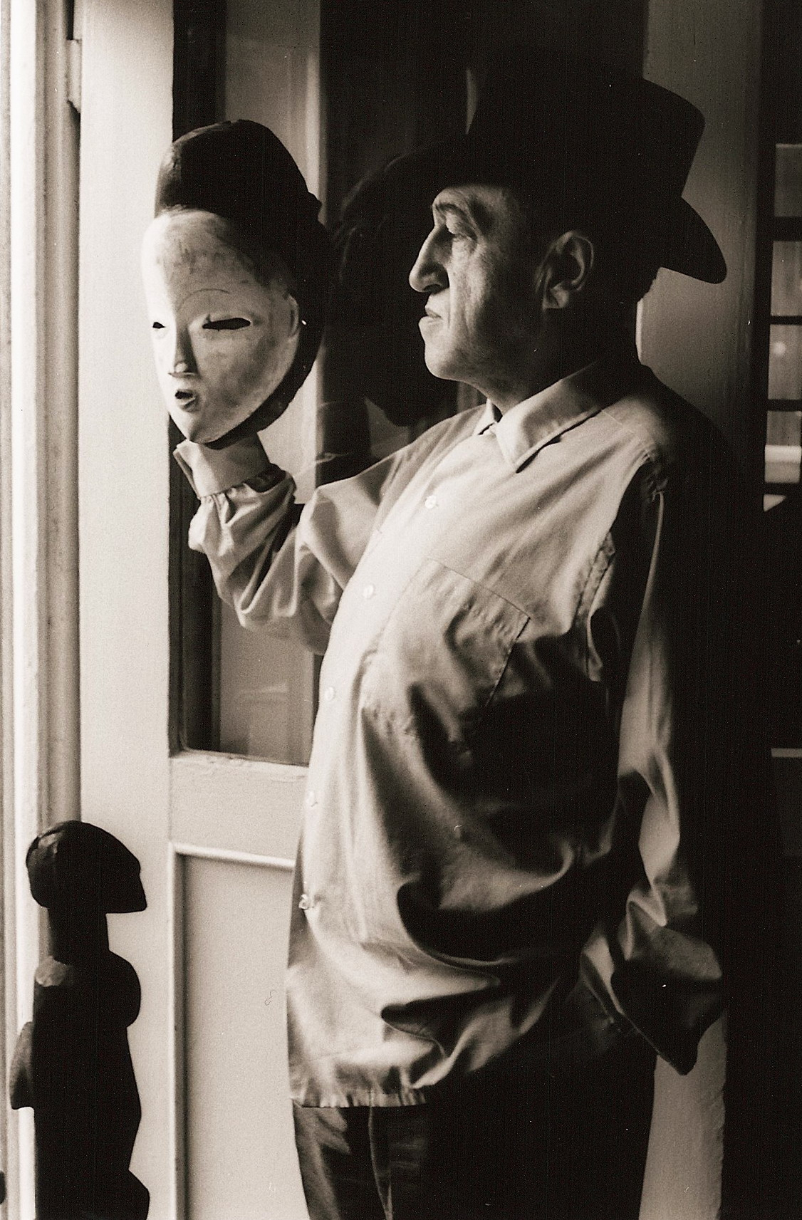 Photo of the artist Josef Oberberger with a mask